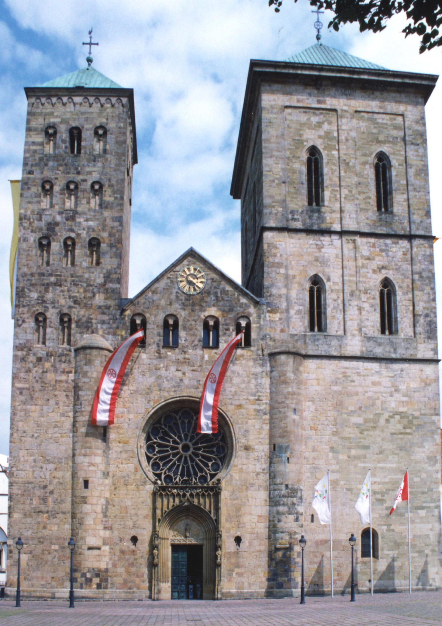 The St. Peter cathedral in Osnabrück, Lower Saxony, Germany